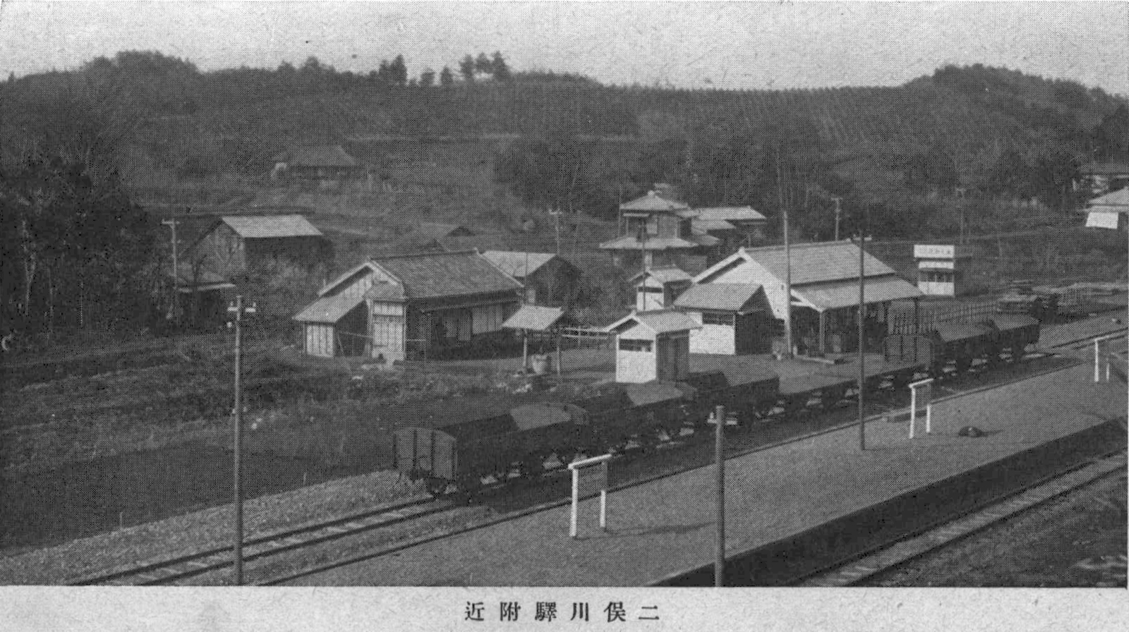 Futamatagawa Station on the Jinchu Railway Co.,Ltd. around 1927. Currently Sagami Railway Co.,Ltd.